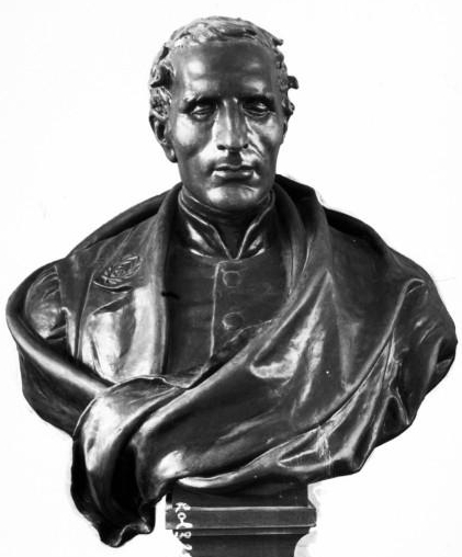 Bust of Louis Braille (1809-1852) by Étienne Leroux (1836-1906)